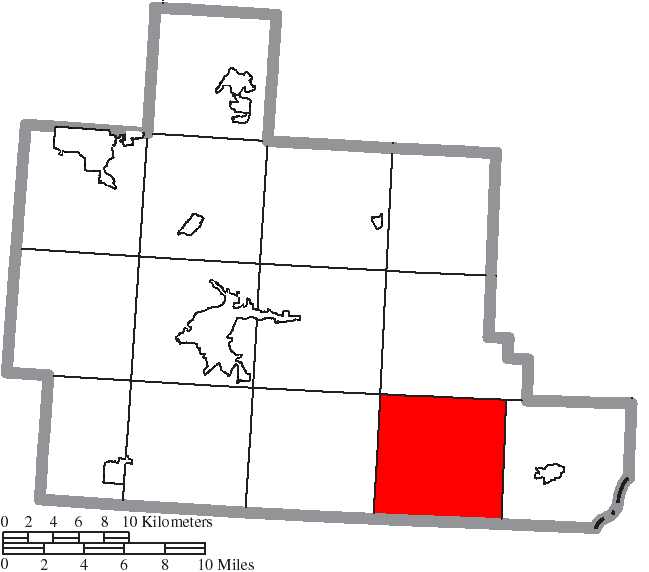 Map of the municipal and township boundaries of Athens County, Ohio, United States, as of the 2000 census, with the location of Carthage Township highlighted. Township borders are shown only in unincorporated areas in order to differentiate incorporated and unincorporated areas more clearly.